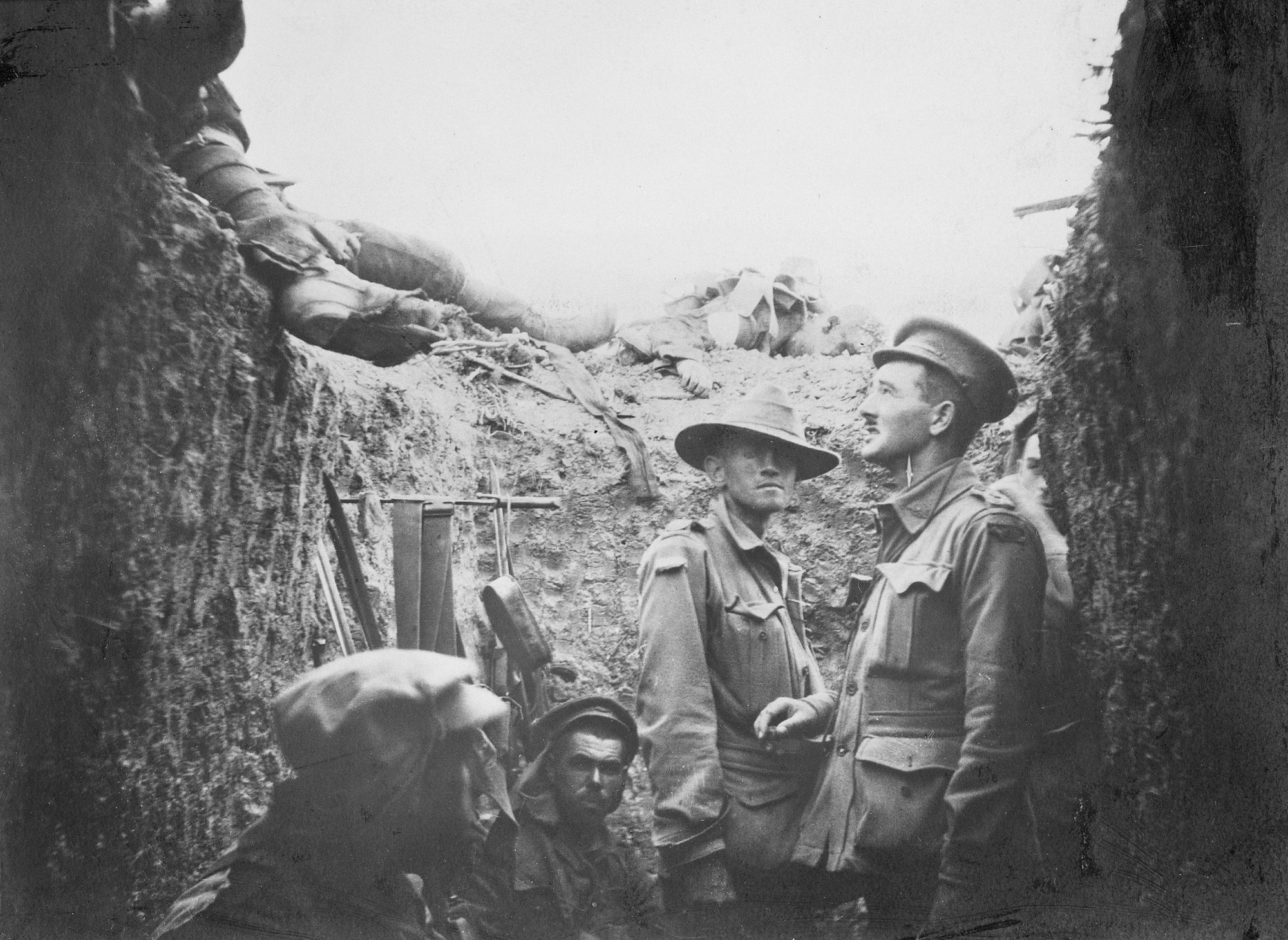 AWM caption : "A trench at Lone Pine after the battle, showing Australian and Turkish dead on the parapet. In the foreground of this much published image is Captain Leslie Morshead (later Lieutenant General Sir Leslie Morshead) of the 2nd Battalion and on his right (standing facing camera), is 527 Private James (Jim) Brown Bryant, 8th Battalion, of Stawell, Vic. As a 60th Battalion ("daughter" or "pup" battalion of the 8th) Company Quartermaster Sergeant (CQMS) Bryant was awarded the Military Medal (MM) in 1918. He enlisted in the Second AIF as VX55299 Lieutenant J B Bryant, and survived three years as a prisoner of the Japanese in Changi Prison, Singapore. Bryant lent his camera to an unknown friend who took AWM image A03869, an equally famous image of the Gallipoli trenches. Later in life he was one of the few Gallipoli veterans to undertake a private pilgrimage to Anzac Cove. Private Bryant was previously identified as Private Angus Sutherland Allen, later (Captain Angus Sutherland Allen MC), who was killed in action on 21 July 1918 in France. Note the prominent white over red 8th Battalion colour patch worn on Bryant's right shoulder".